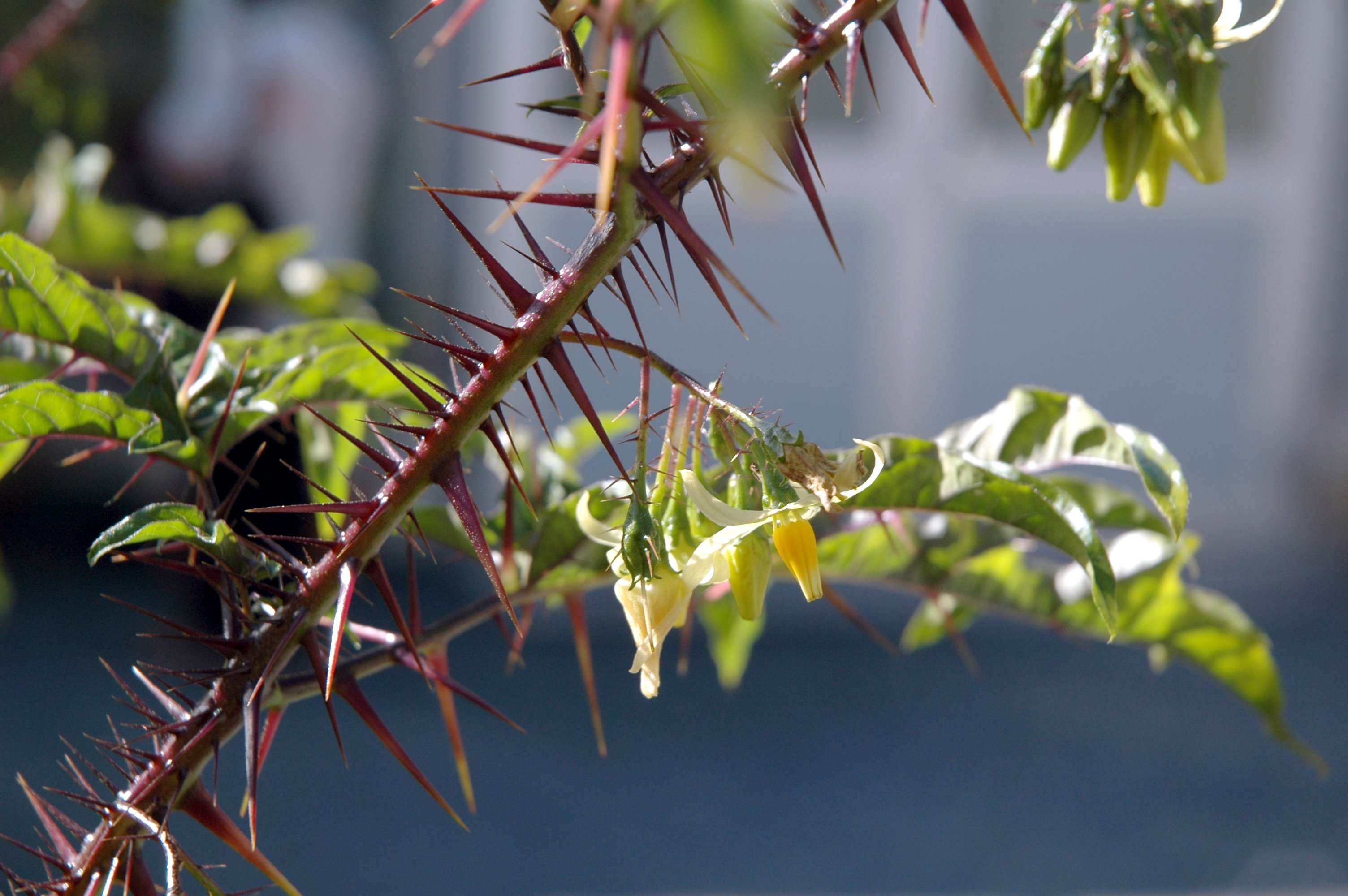 Inflorescence of Solanum atropurpureum (Solanaceae) at Jena Botanical Garden, Germany